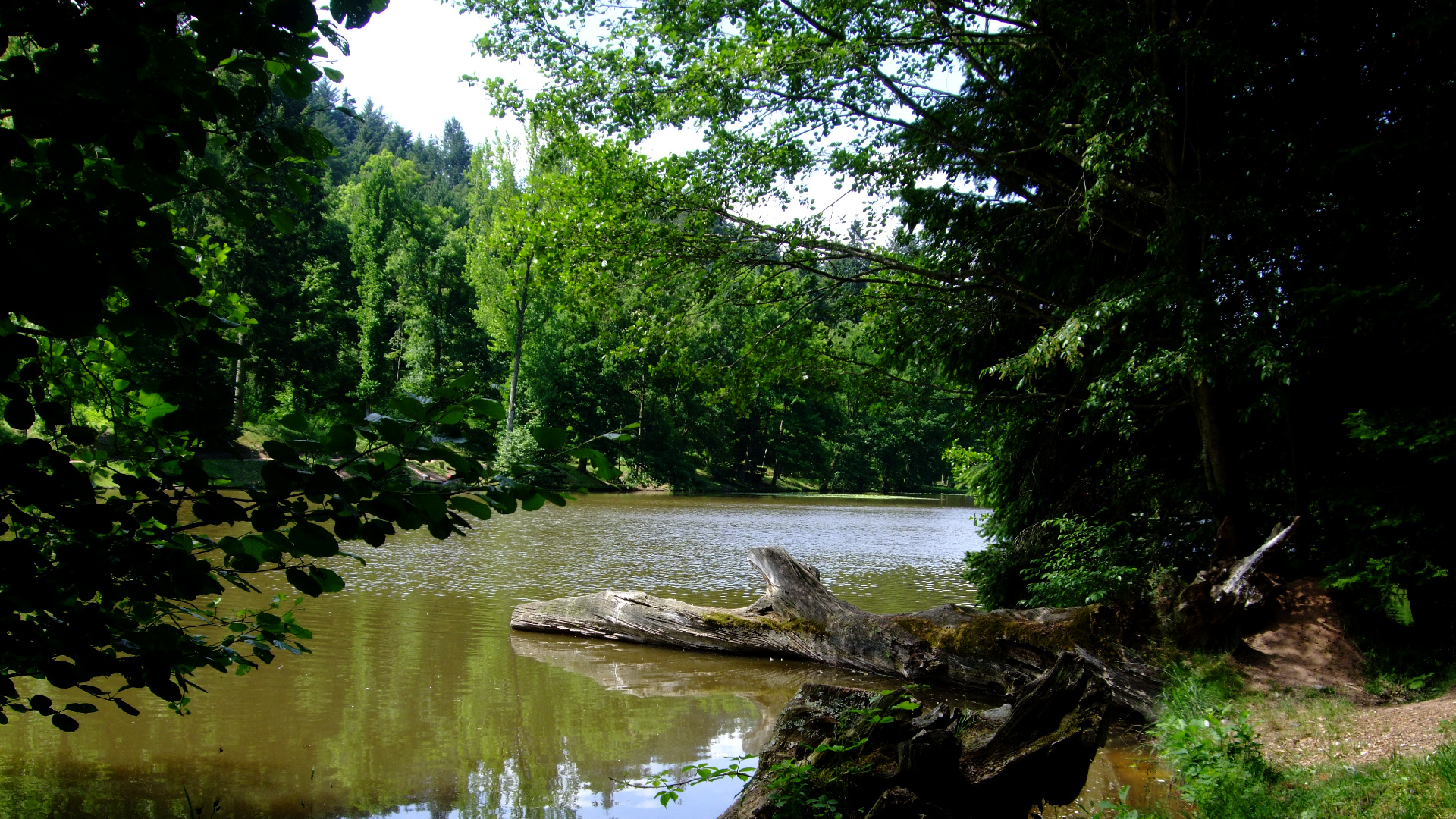 Arboretum de Pezanin - Dompierre les Ormes Sud Bourgogne